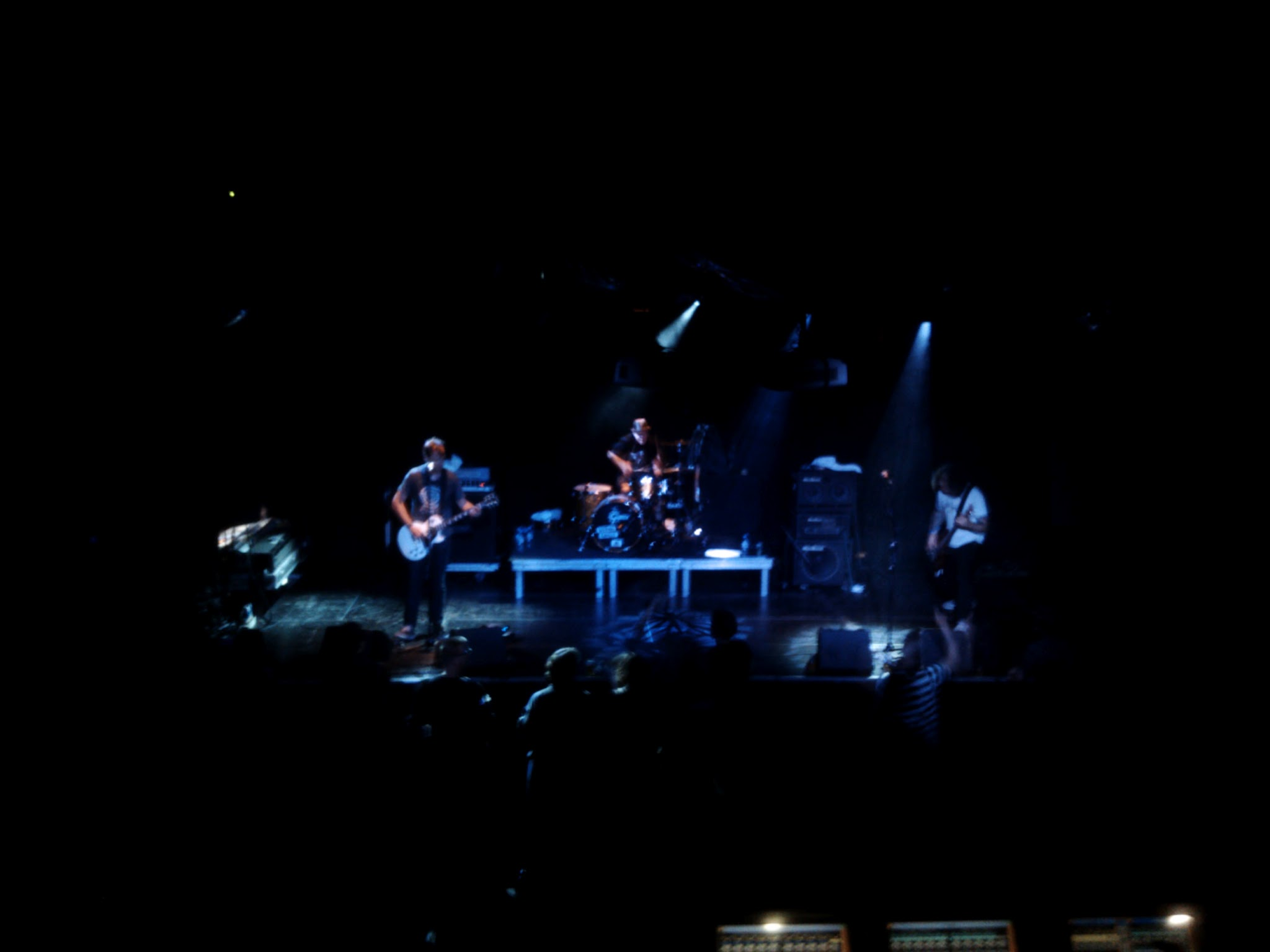 19 mei, 2012. Victims Family, De Melkweg, Amsterdam